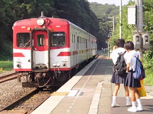 East Japan Railway Company, DMU Type 52 "Akaoni" at Kami-yonai Sta., Yamada Line